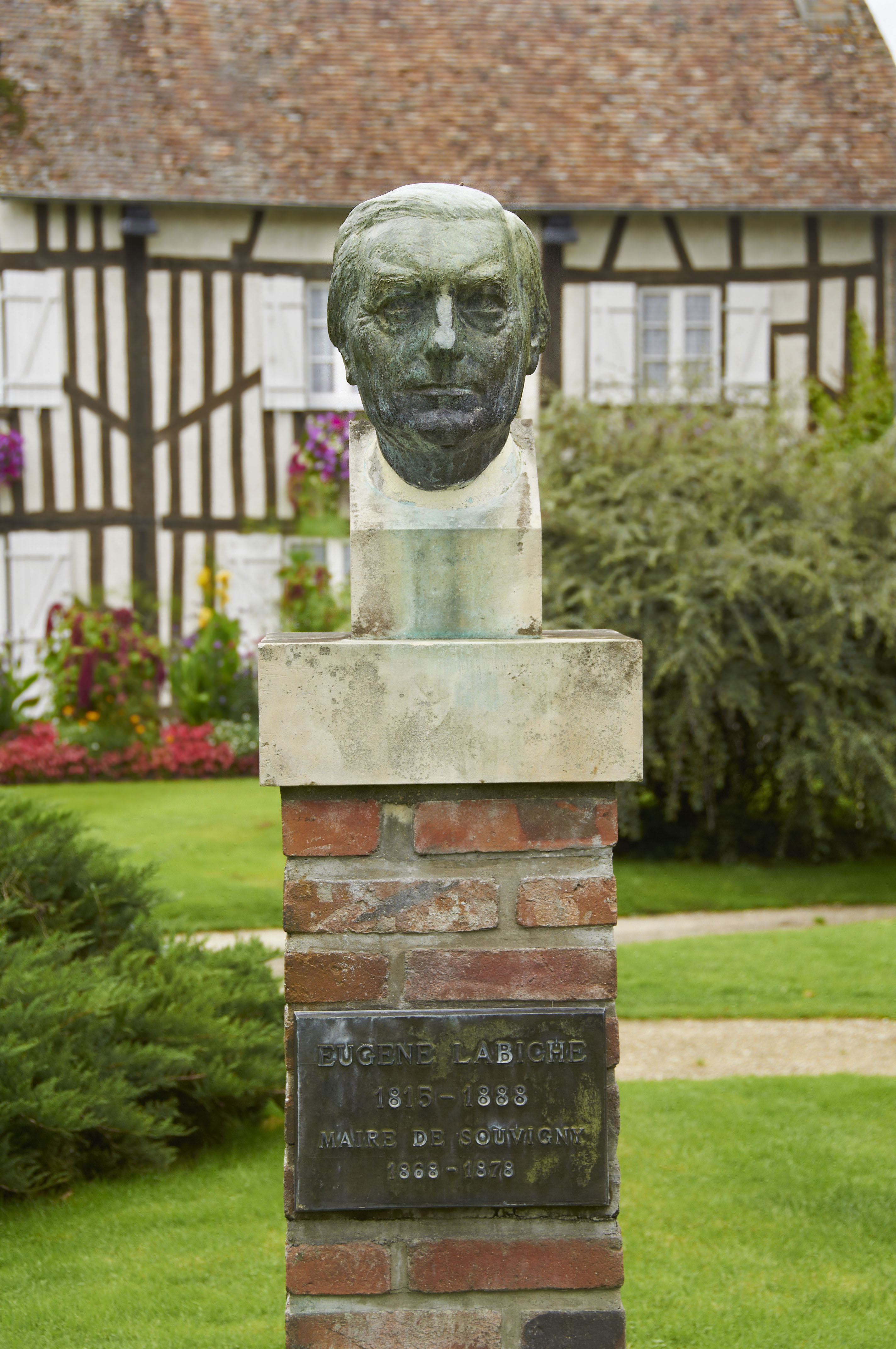 Statue of Eugène Labiche in Souvigny-en-Sologne